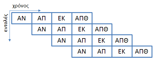 Four level Pipelining